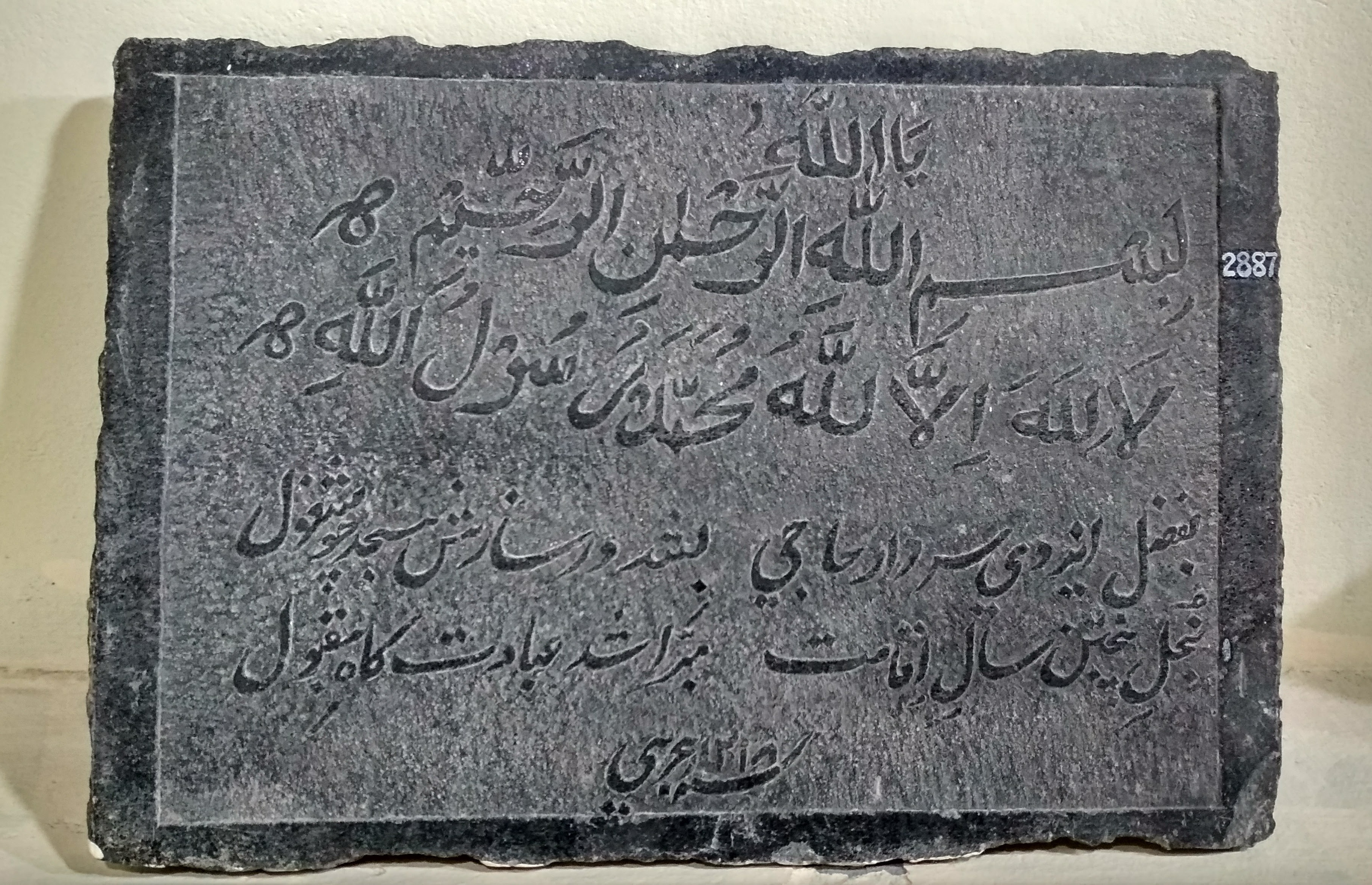 Arabic-Parsian stone inscription of time of Shah Alam (II) 1218 A.H./1803 A.D.